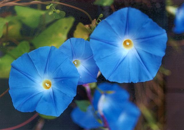 This is the I. tricolor, the I. violacea is usually white and the petals are more ruffled.